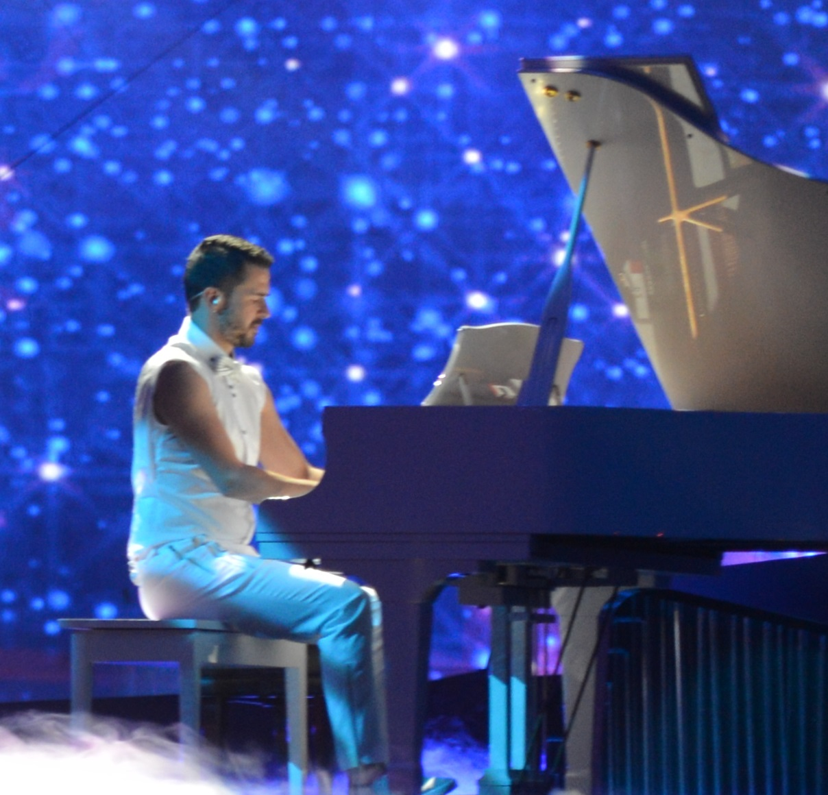 Pasha Parfeny